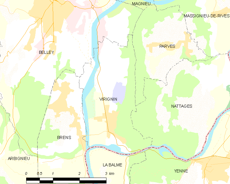 Map of French commune: Virignin Map commune FR insee code 01454.png